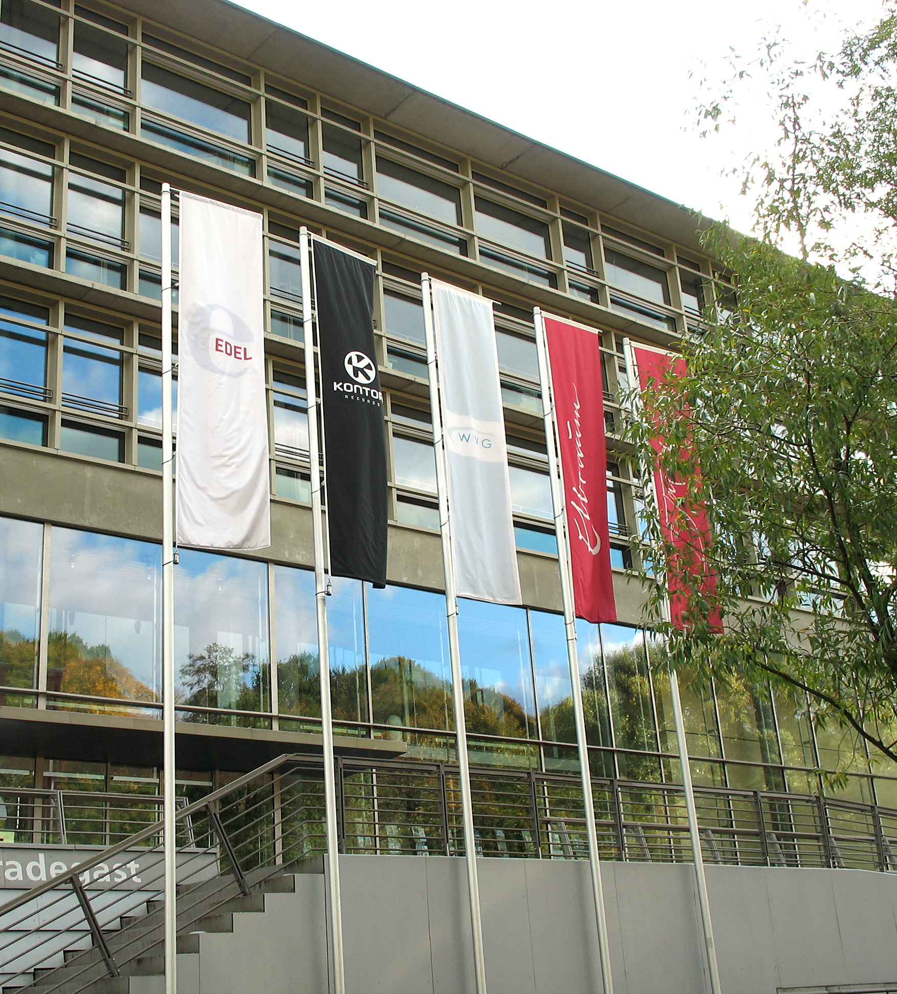 Hamburg, Neumühlen 17 - the headquaters of Edel Music, Kontor Records and some other companies